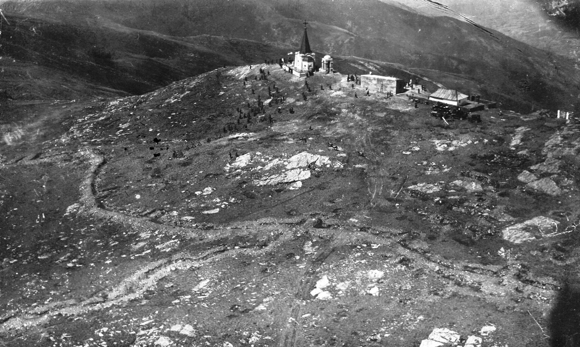 Kajmakčalan, photo from 1930 This media file is produced by Wikipedian in Residence in Category:Wikipedian in Residence at DARM in 2016.